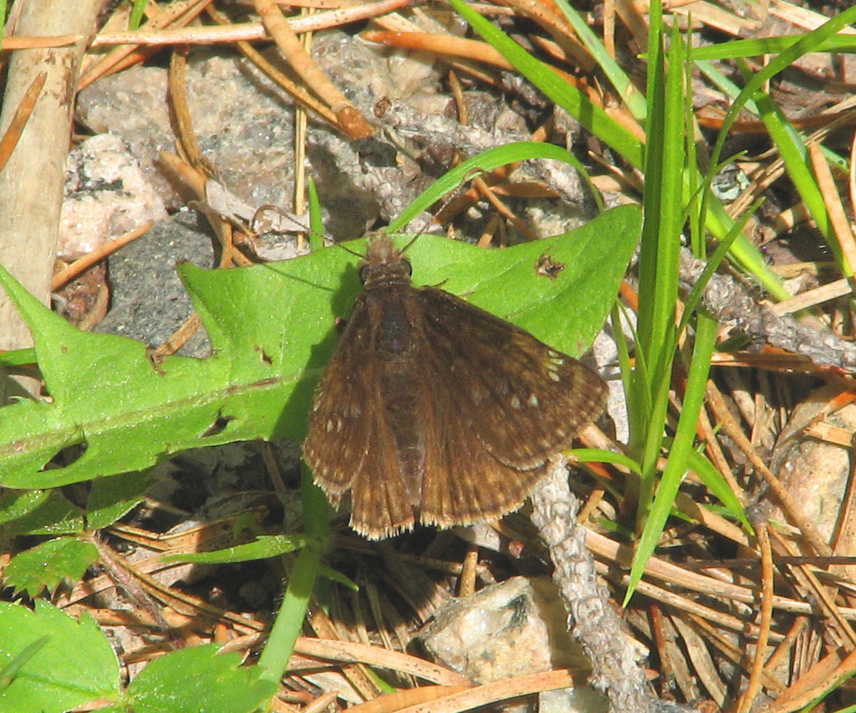 Juvenal's Duskywing (Erynnis juvenalis) taken at Palmer Rapids, Ontario